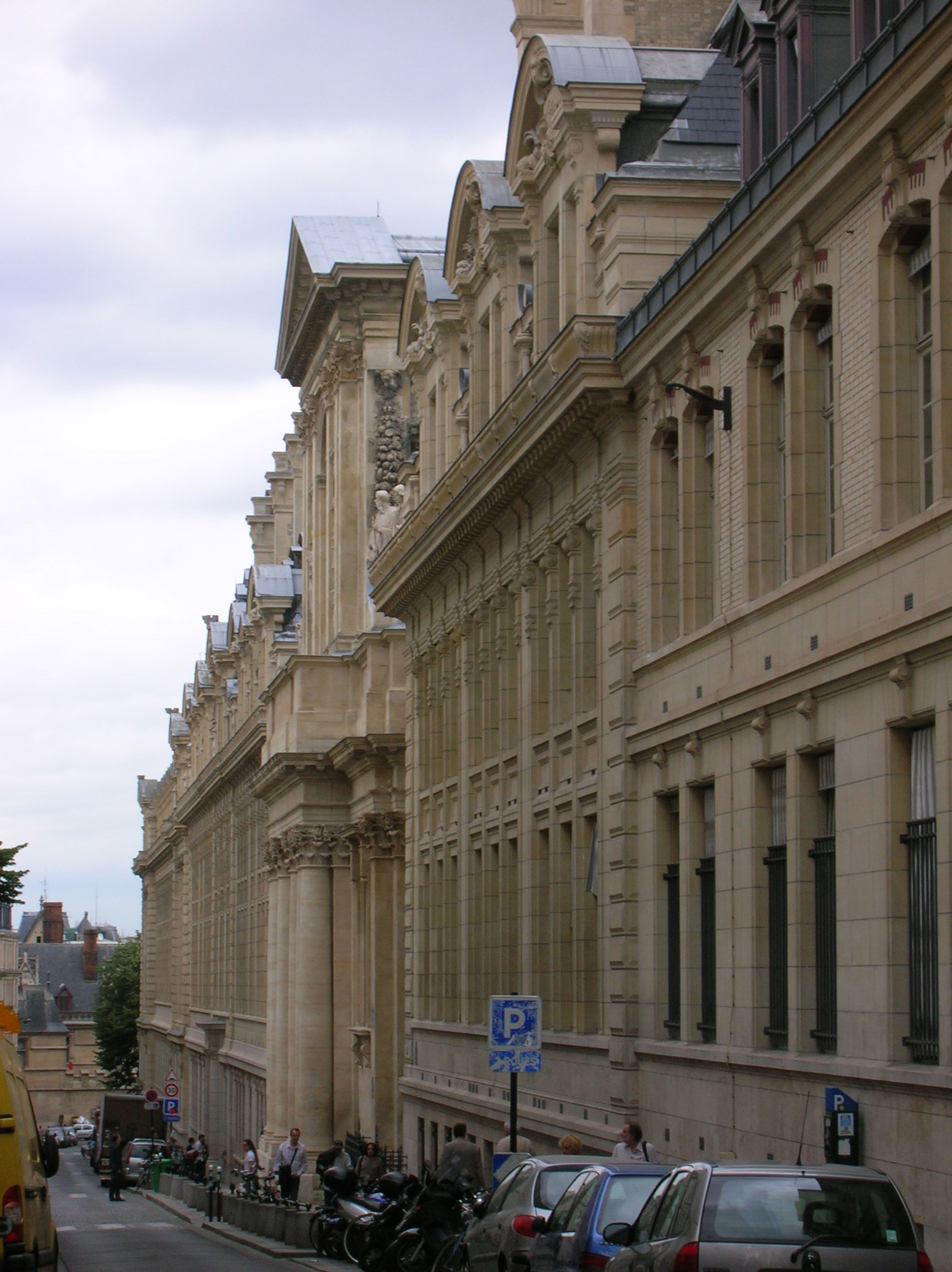 La Sorbonne, façade ouest, sur la rue Victor-Cousin à Paris.